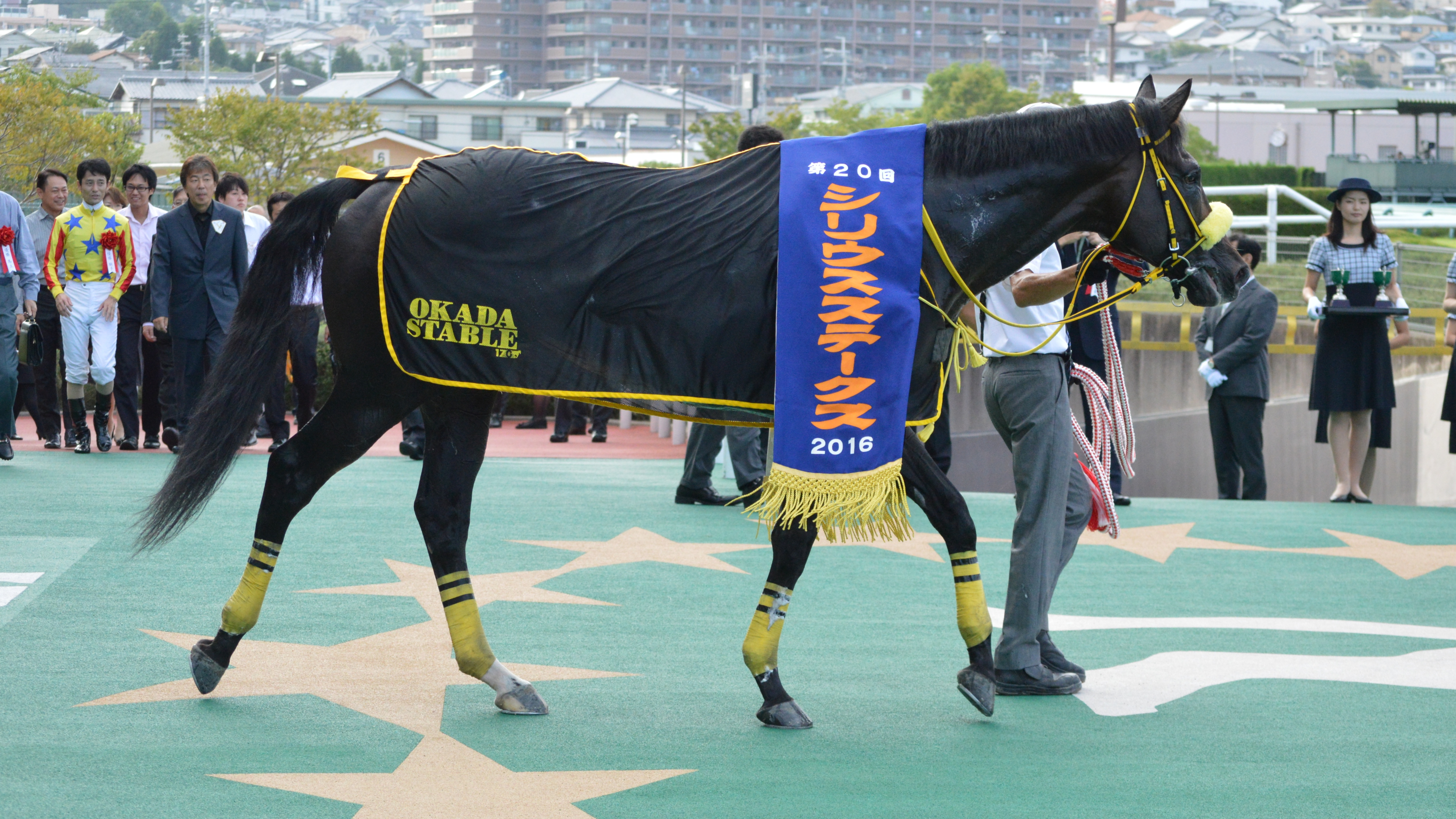 Japanese race horse Mask Zorro at Hanshin racecourse. Hanshin (JPN) 1 Oct 2016Sirius Stakes (Grade 3 Handicap) (3yo+) (Dirt) 1m2f Standard RankHorse NameOddsAgeWgtJockeyTrainer1stMask Zorro (USA)13/5FH58-11Shinichiro AkiyamaInao Okada2ndPionero (JPN)29/10H58-11Yuichi FukunagaMikio MatsunagaOthers are omitted. (11 horses entered in a race.)